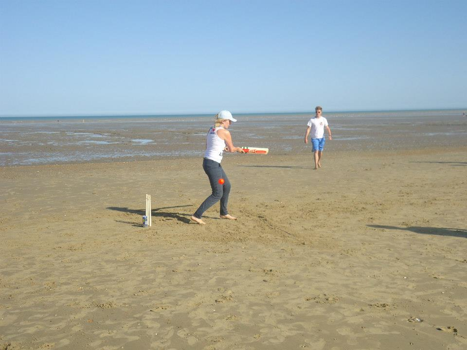 Batswoman and fielder. Note the large beach area due to the tide being out.